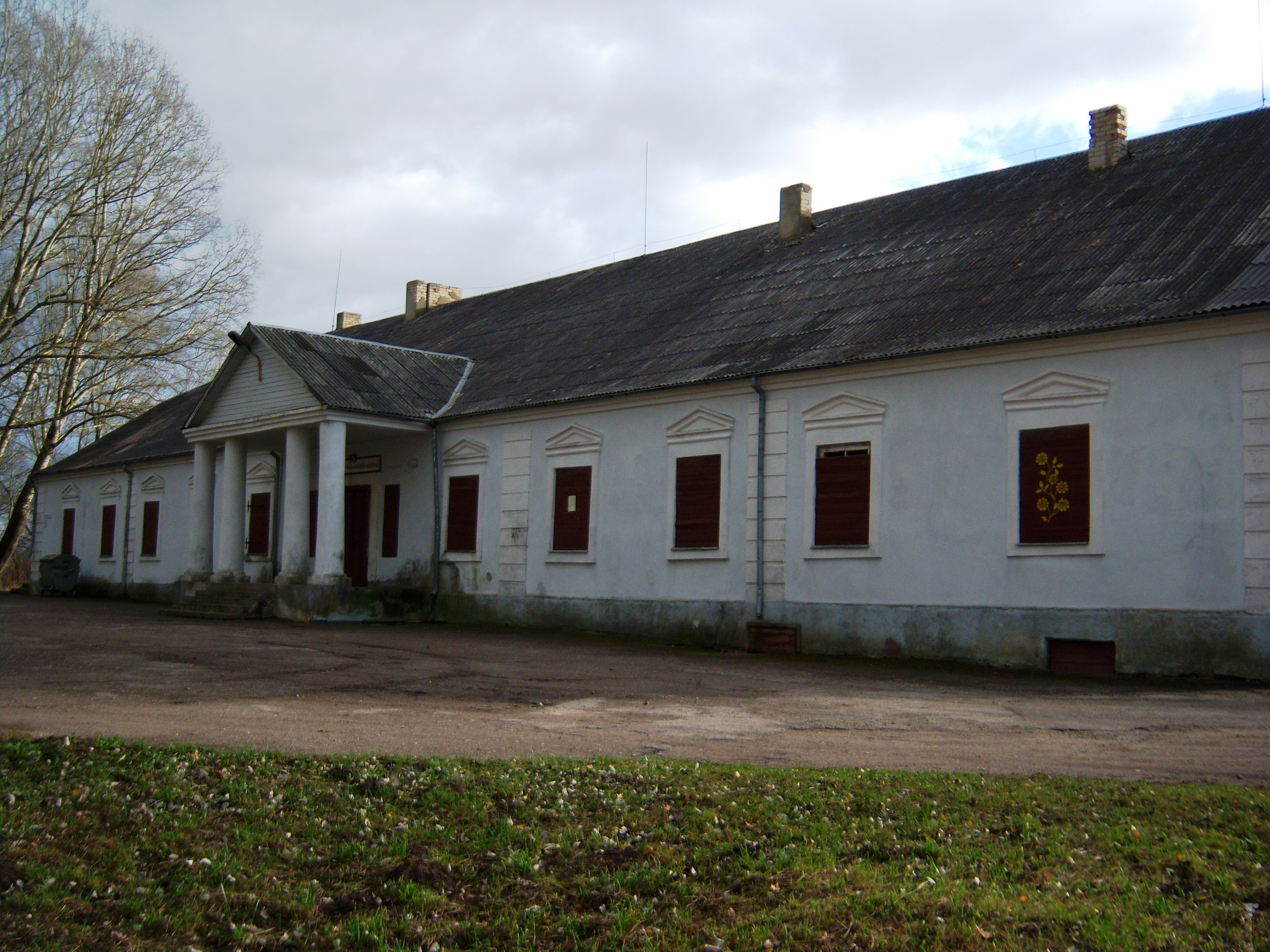 Former manor in Salamiestis, Kupiškis District, Lithuania